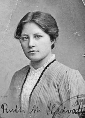 Photograph of the Finnish literature scholar Ruth Hedvall (1886–1944).